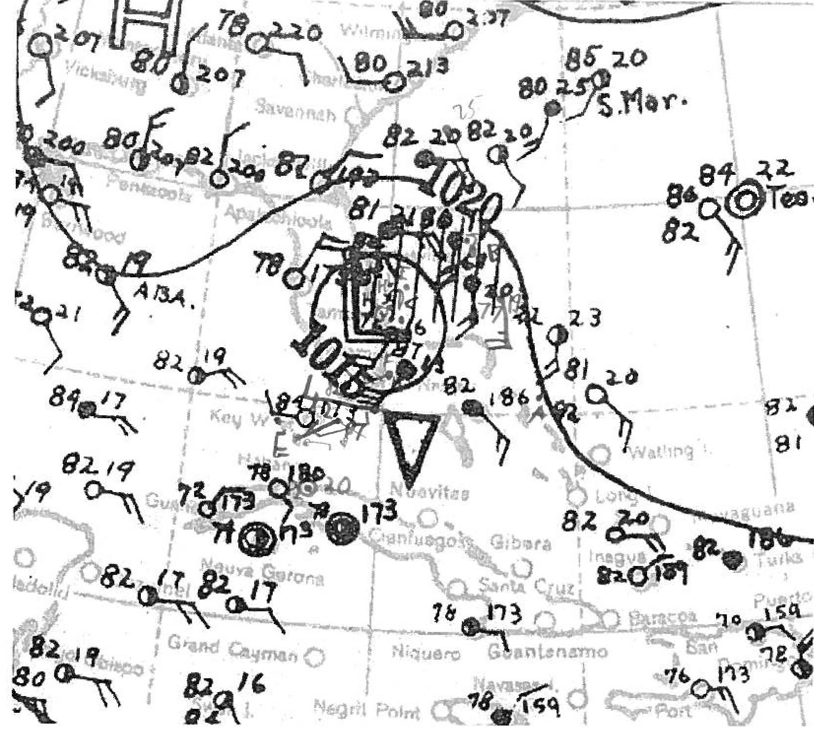 Surface weather analysis of the 1933 Florida–Mexico hurricane on July 30, 1933.